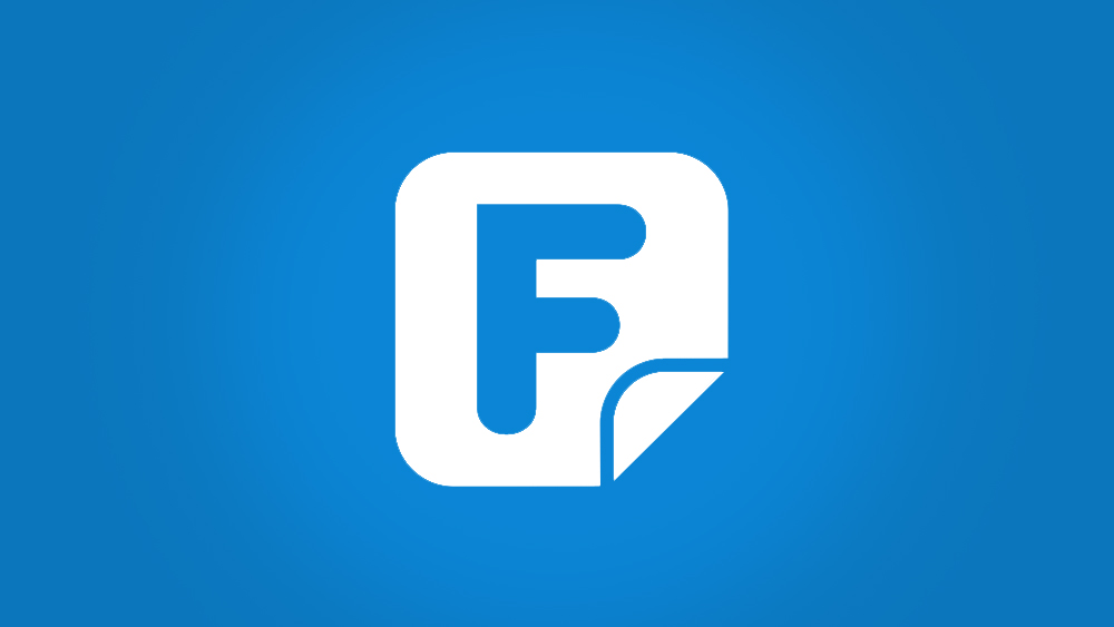 Current screen logo used since 2014 for the public broadcaster for the Federation of Bosnia and Herzegovina.